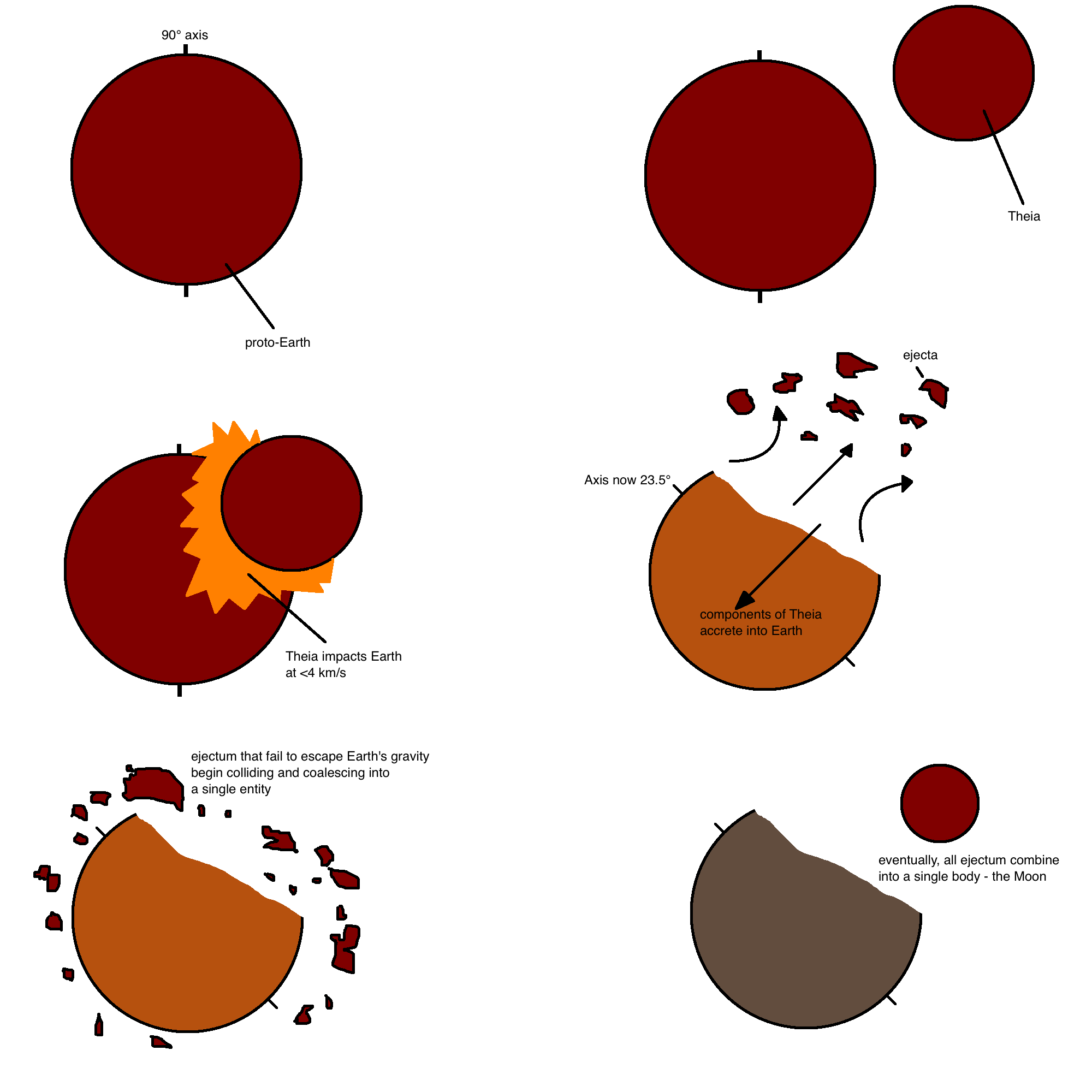 Simplistic representation of the giant-impact hypothesis.